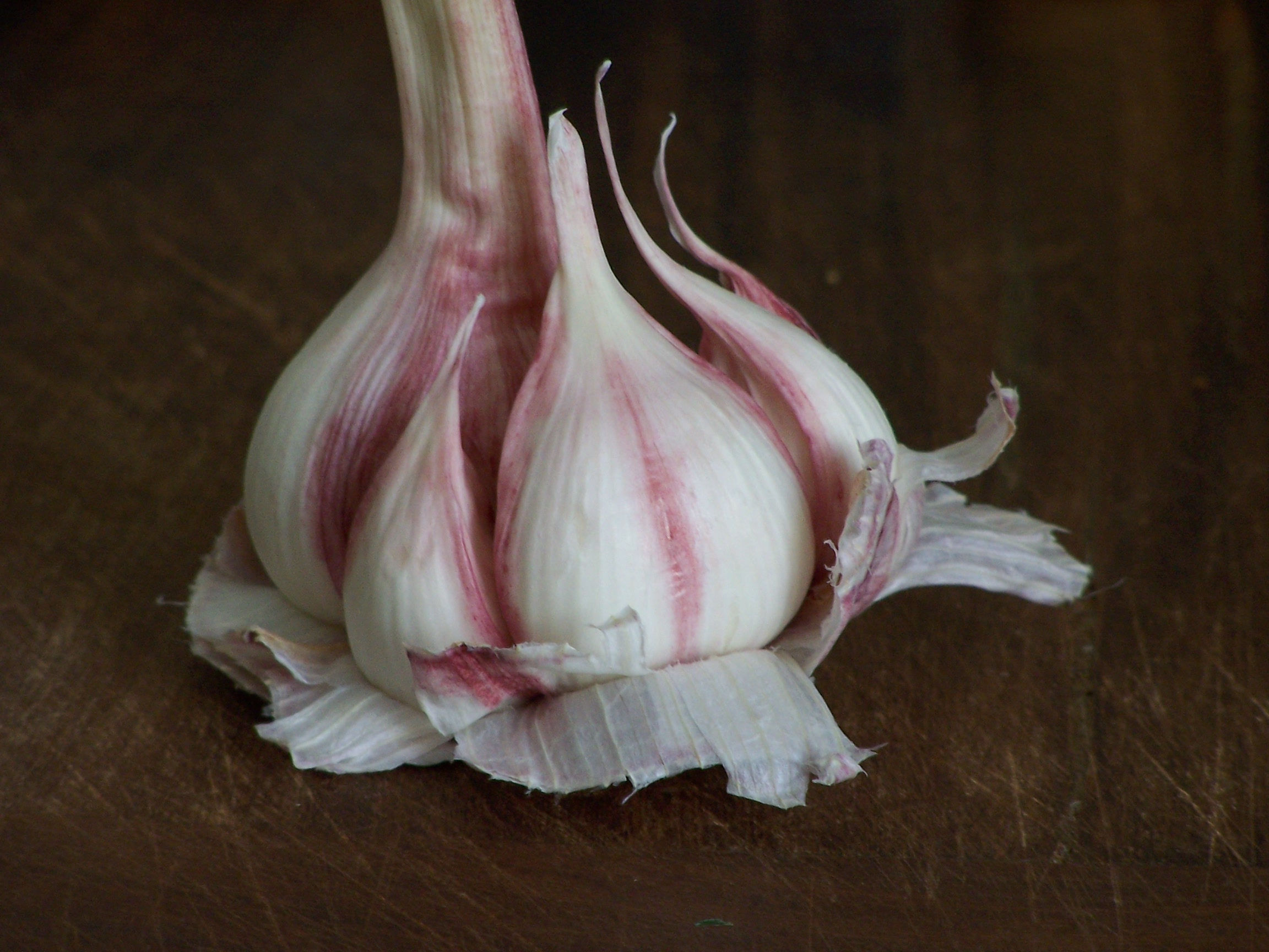 Pink garlic of Lautrec